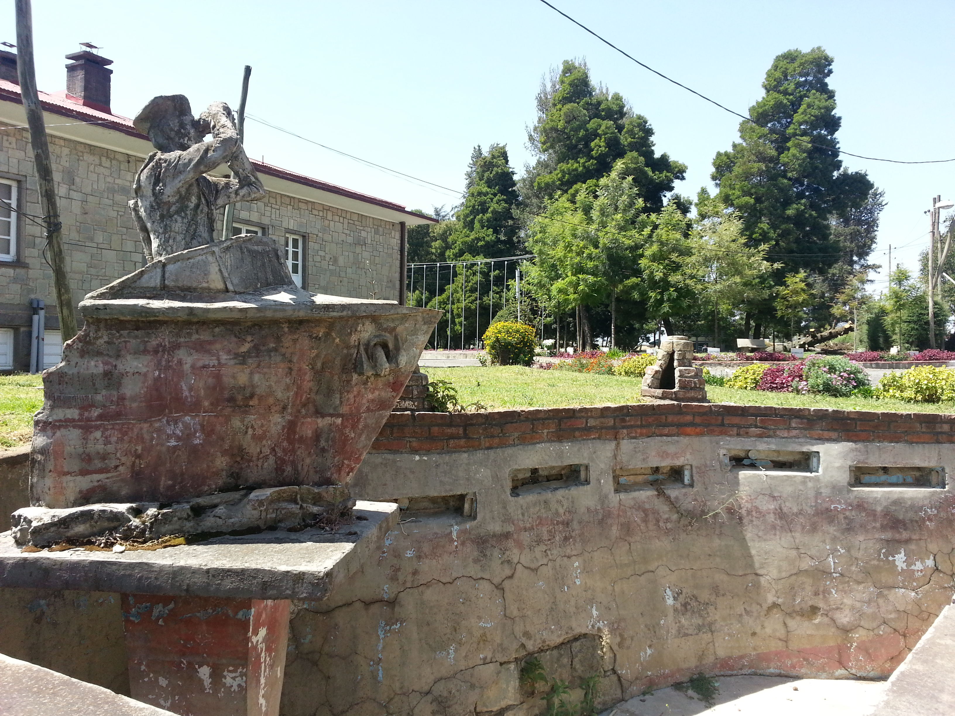 Disused monument and fountain on the grounds of the former headquarters of the Ethiopian Navy, in Guele, Addis Ababa, Ethiopia. The building now serves as the headquarters of EASTBRIG, the East African component of the African Standby Force.